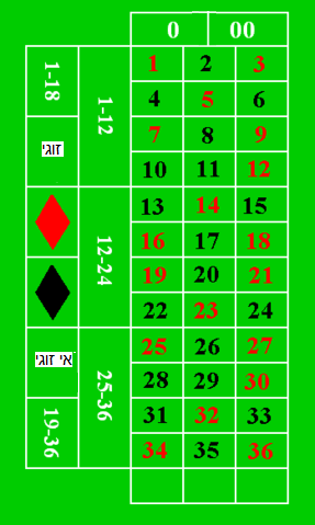 A Finnish Roulette board.